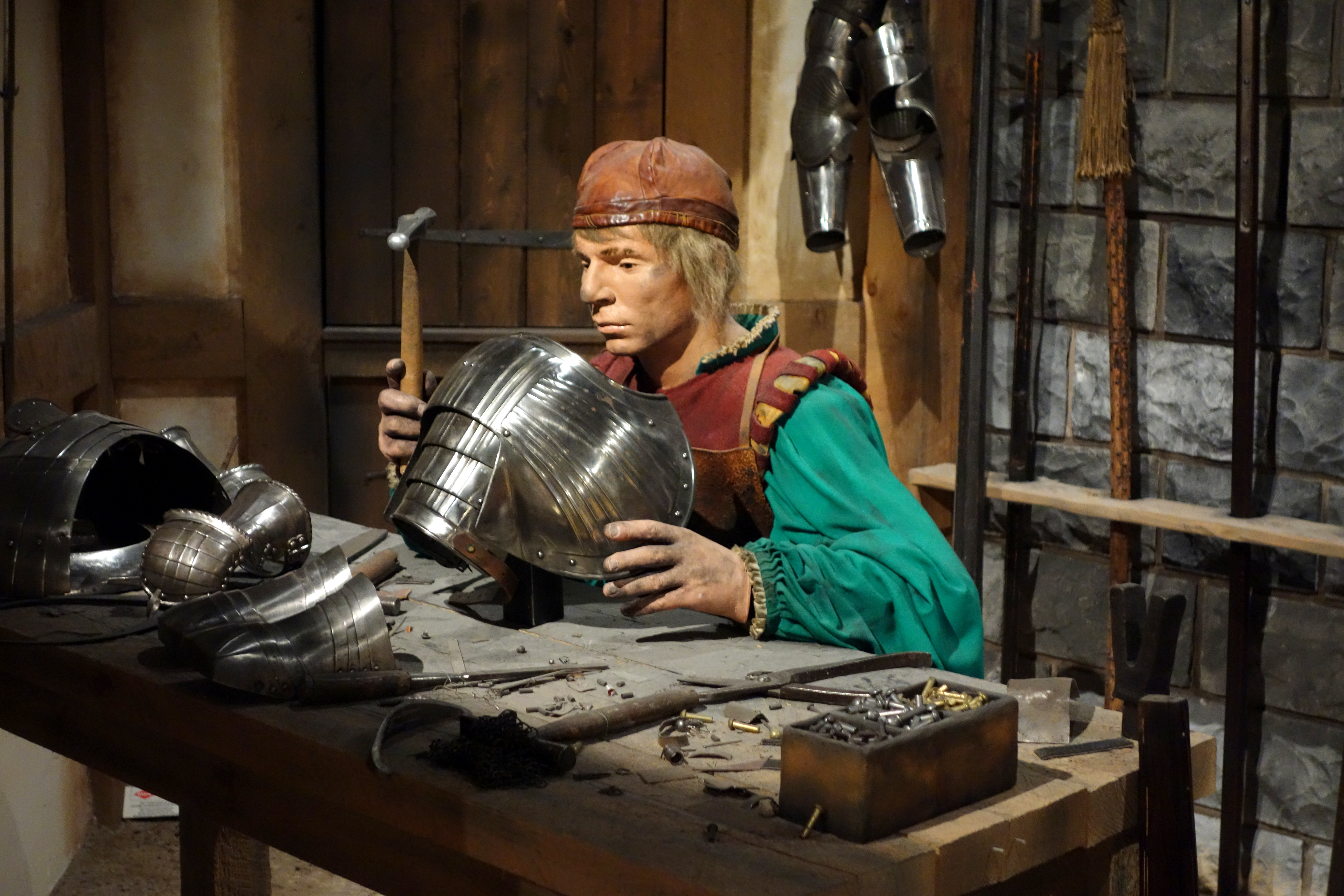 Exhibit in the Glenbow Museum, 130 9th Ave S.E., Calgary, Alberta, Canada. This work is old enough so that it is in the public domain.